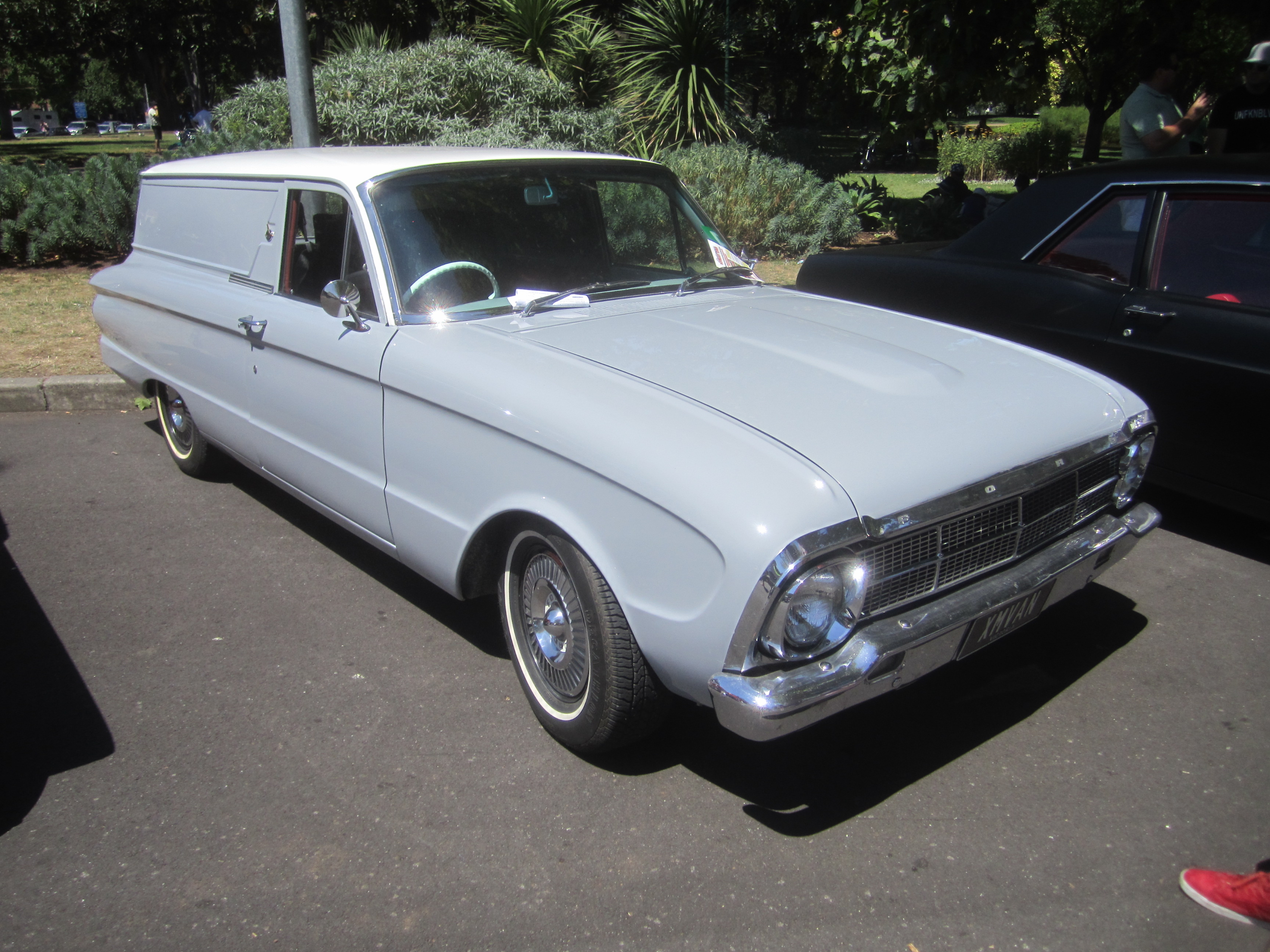 The XM Falcon got many modifications including strengthening to most areas, the car now quite different to its US equivalent. The Panel Van was built from Feb 64-Feb 65 in Standard or Deluxe Engines; 144 and 170 cu in 6 cyl Also Utility available